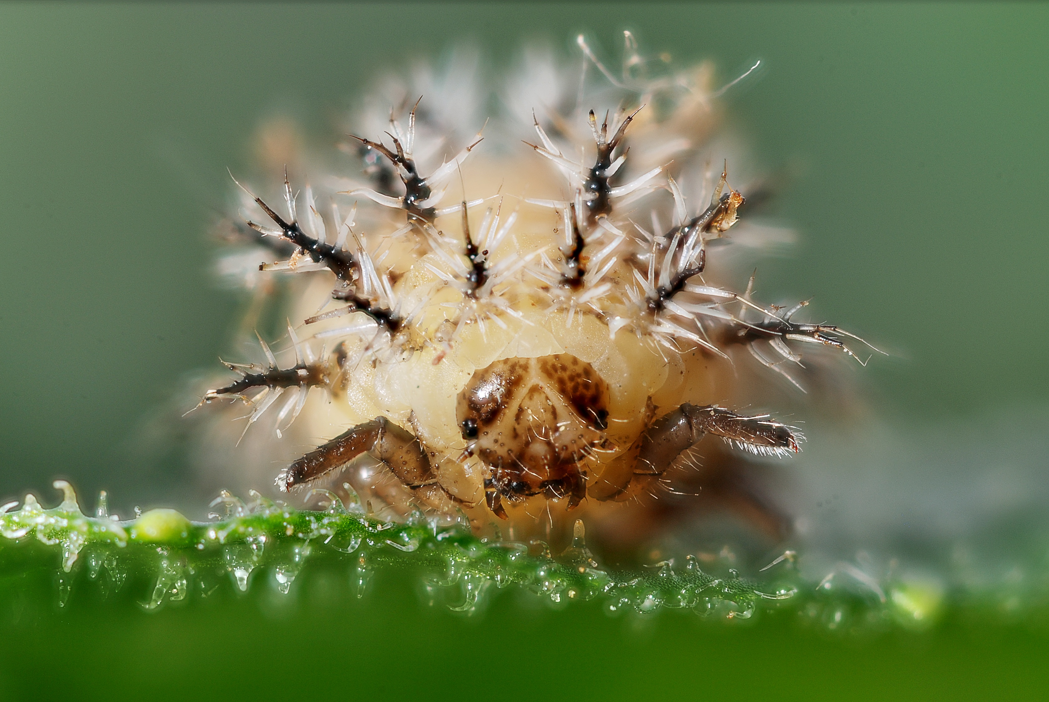 Epilachna argus, larva, frontal Technical settings : - focus stack of 6 handheld taken images merged with the softwares enfuse and hugin (align_image_stack) - 60 mm micro-nikkor on 68 mm extention tubes - scale : head capsule width = 1.2 mm